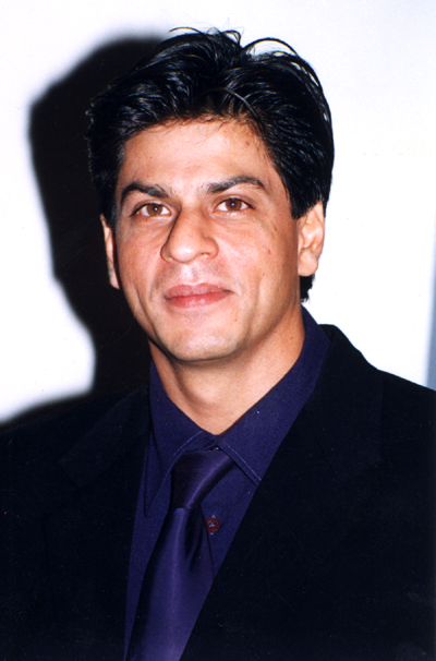 Shah Rukh Khan at the launch of in 2000